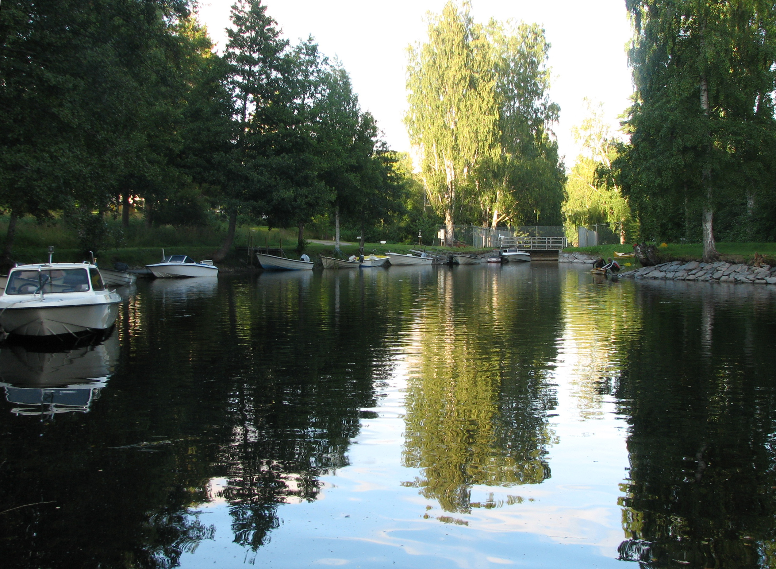 The Tamm's canal leading to the lock at Näsviken, Hälsingland, Sweden